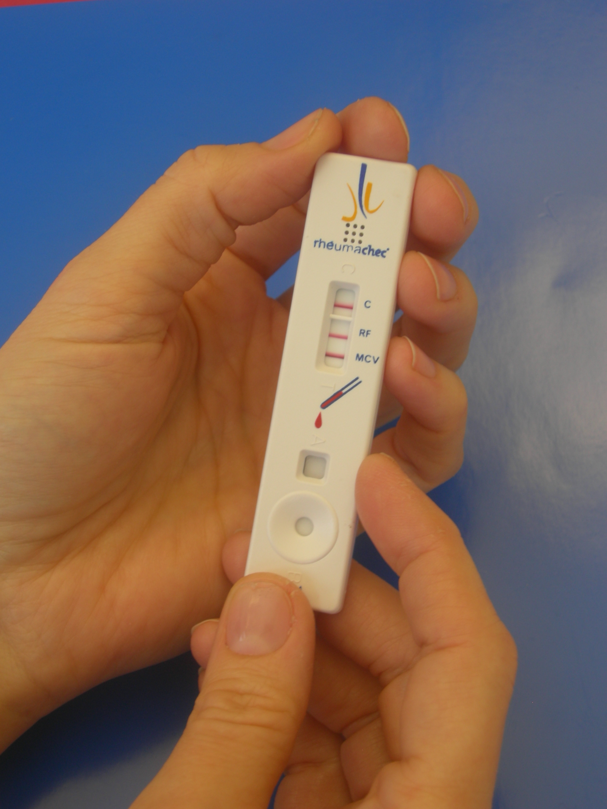 Fast and easy-to-use assay (POCT) for diagnosing rheumatoid arthritis: combined detection of rheumatoid factor and Anti-MCV